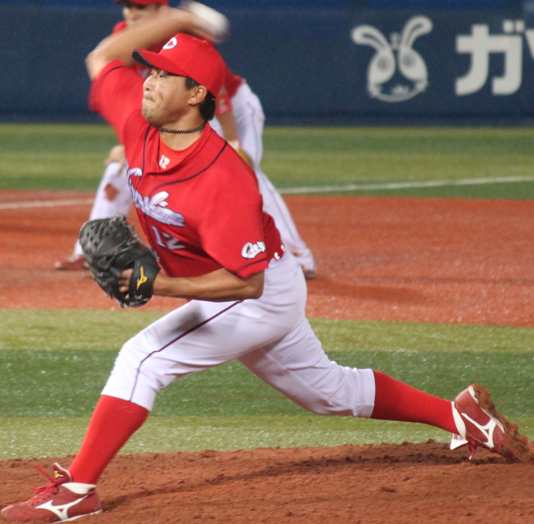 Hirofumi Ueno, pitcher of the Hiroshima Toyo Carp, at Yokohama Stadium.